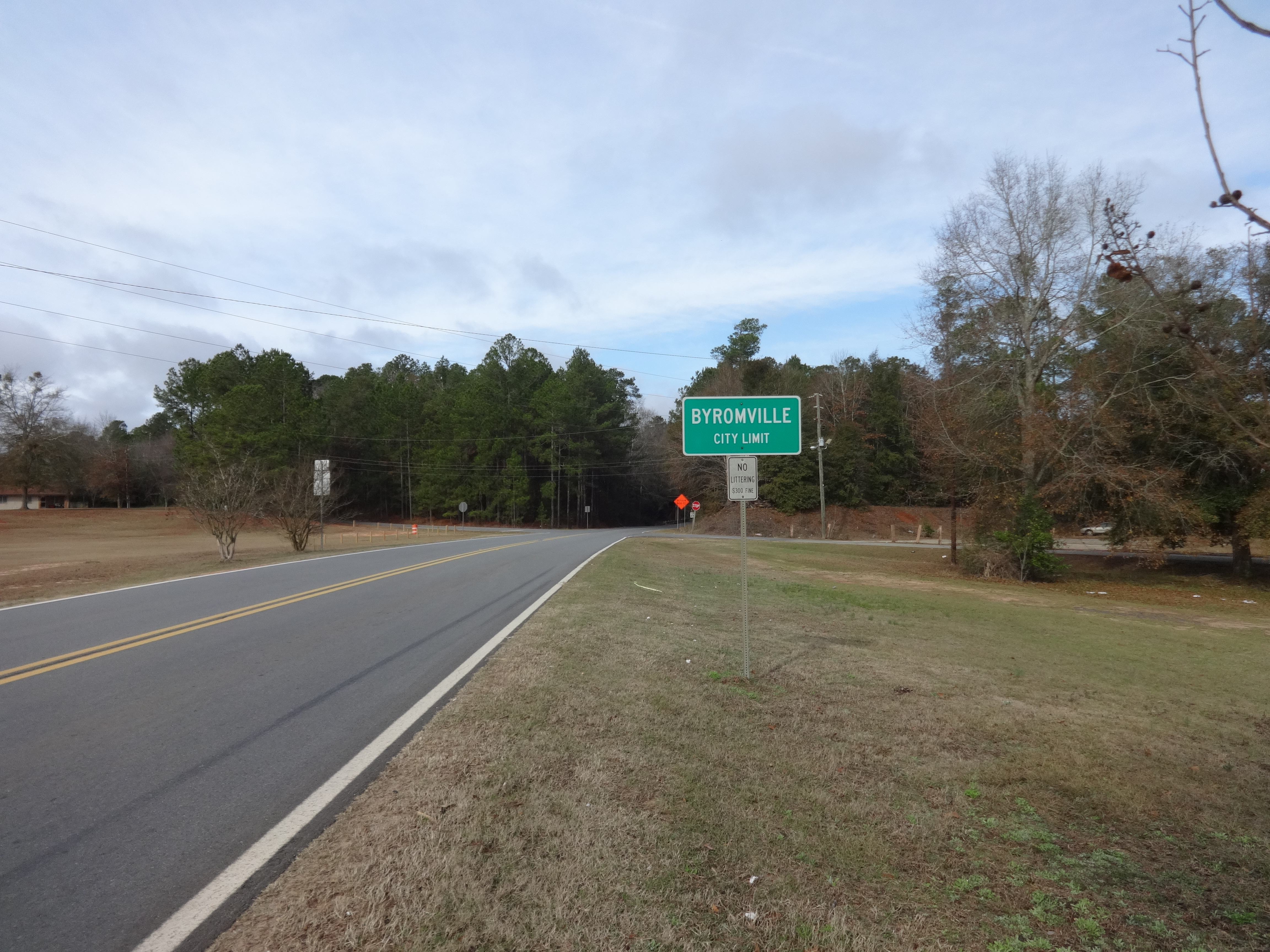 Byromville city limit, GA90NB, Byromville, Dooly County, Georgia